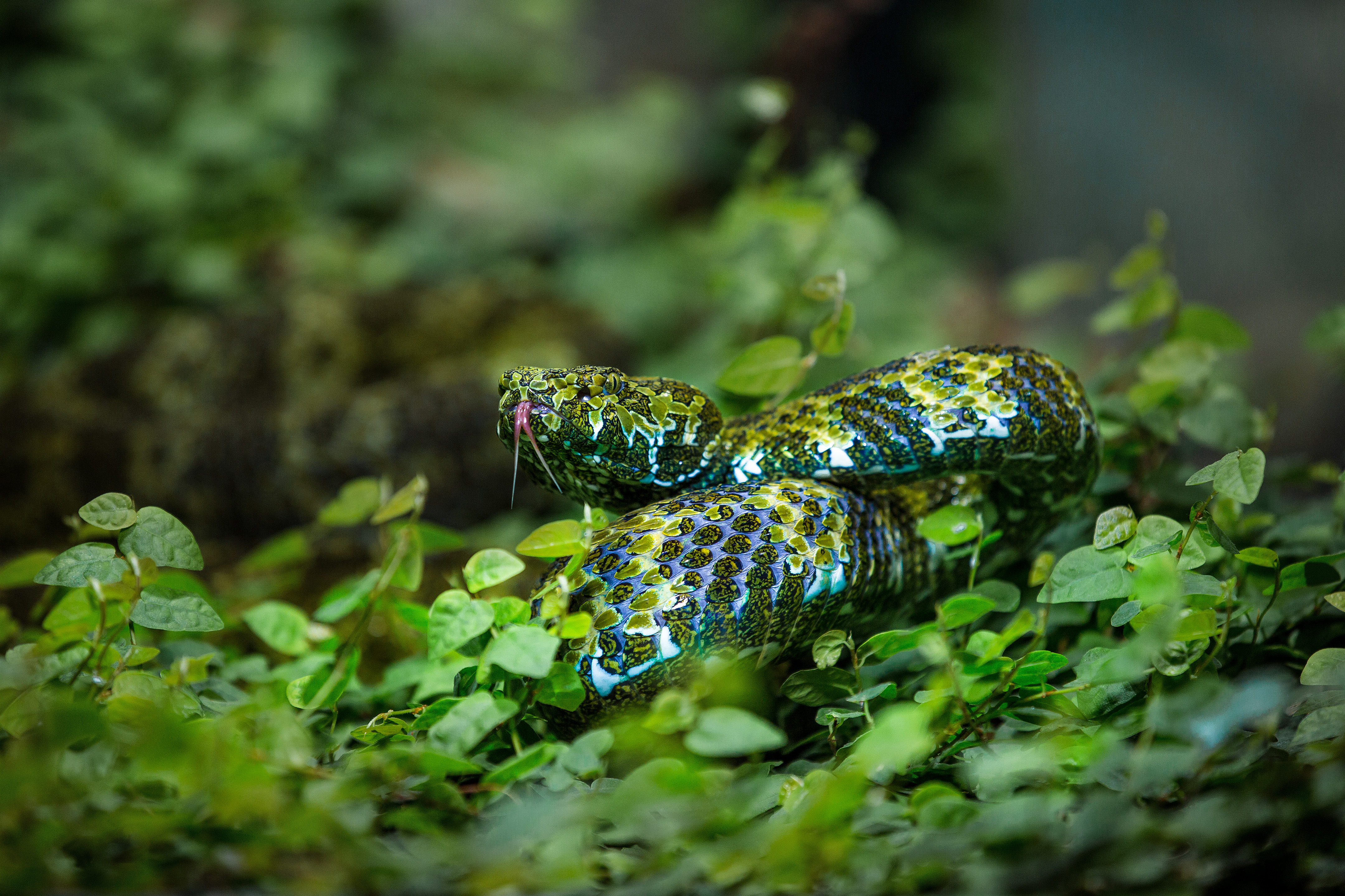 Mangshan pitviper in Prague Zoo